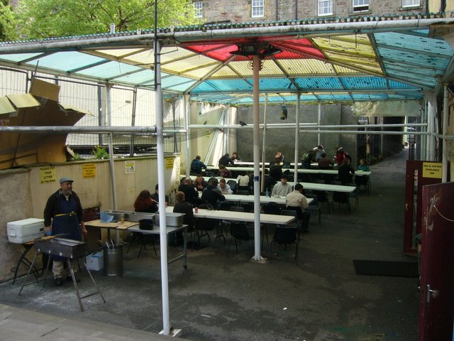 Edinburgh Mosque kitchen Kitchen behind the Edinburgh Mosque that provides good food at very reasonable prices to anyone who cares to drop in.